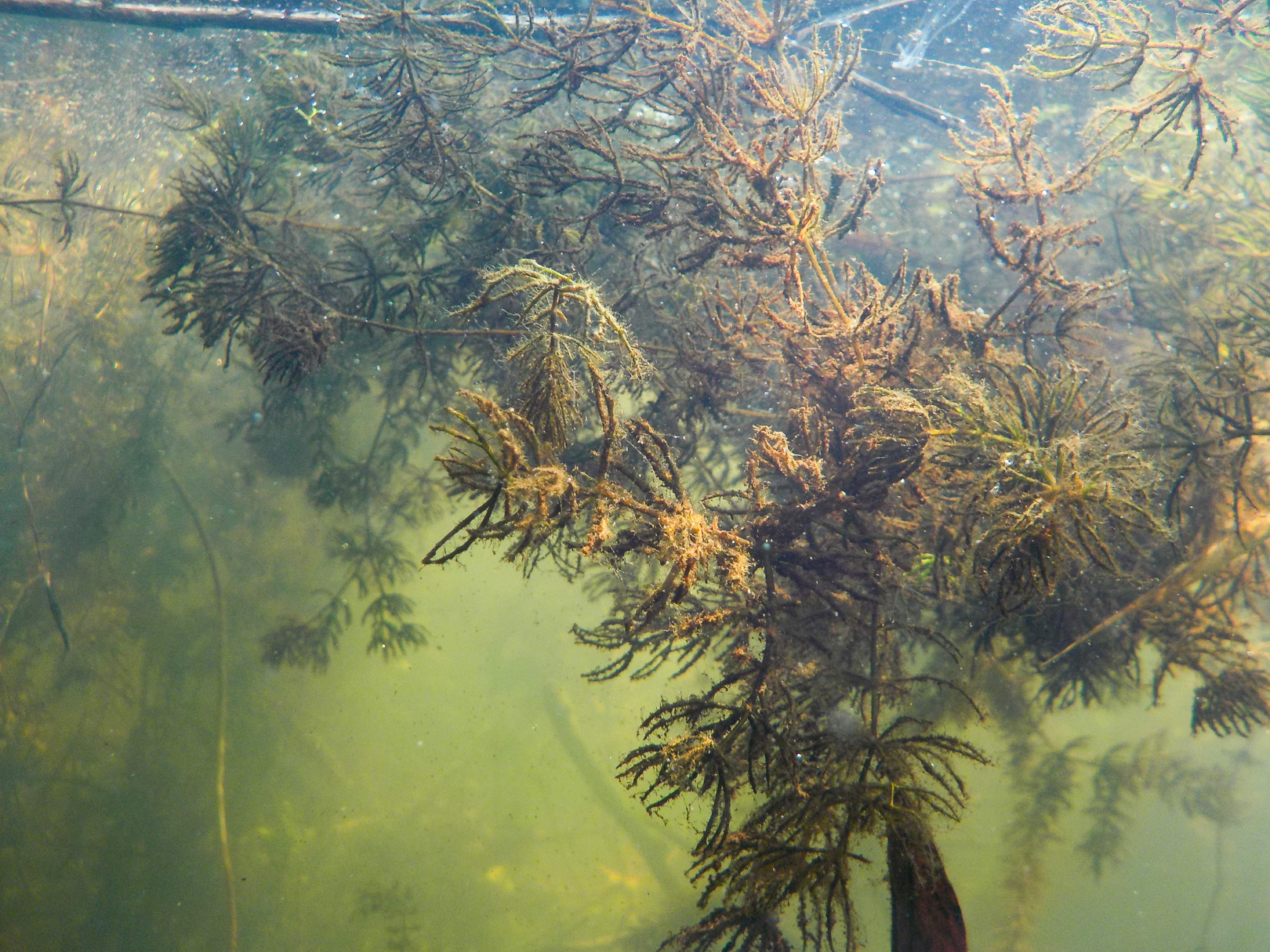 Powsinek Lake, an underwater photohraph. Powsinek, Wilanów, Warsaw, Poland.